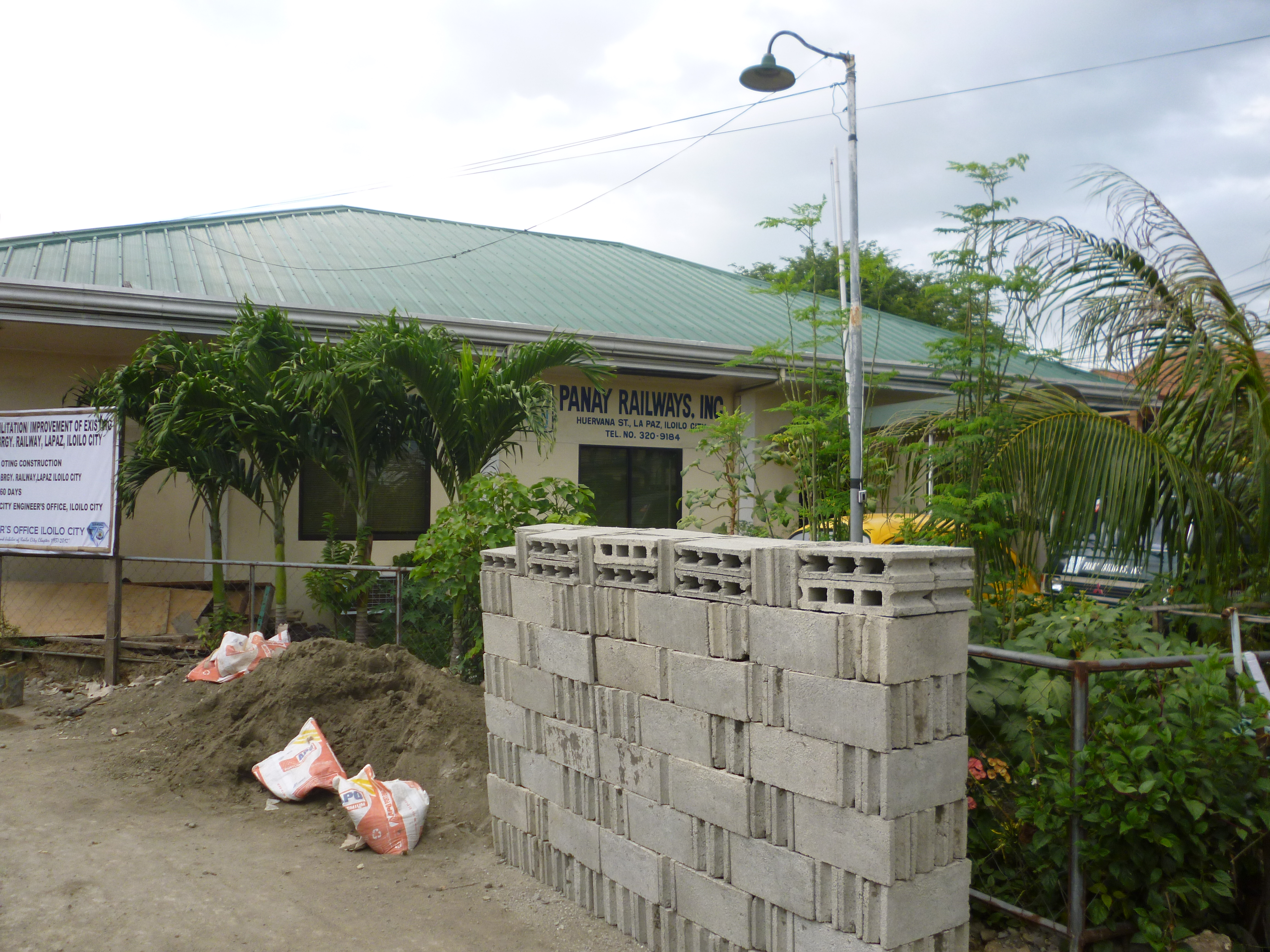 Panay Railways main office, La Paz, Iloilo City, the Philippines